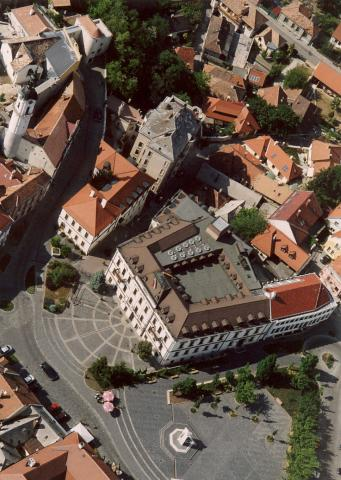 Veszprém, castle, Hungary, aerialphotography